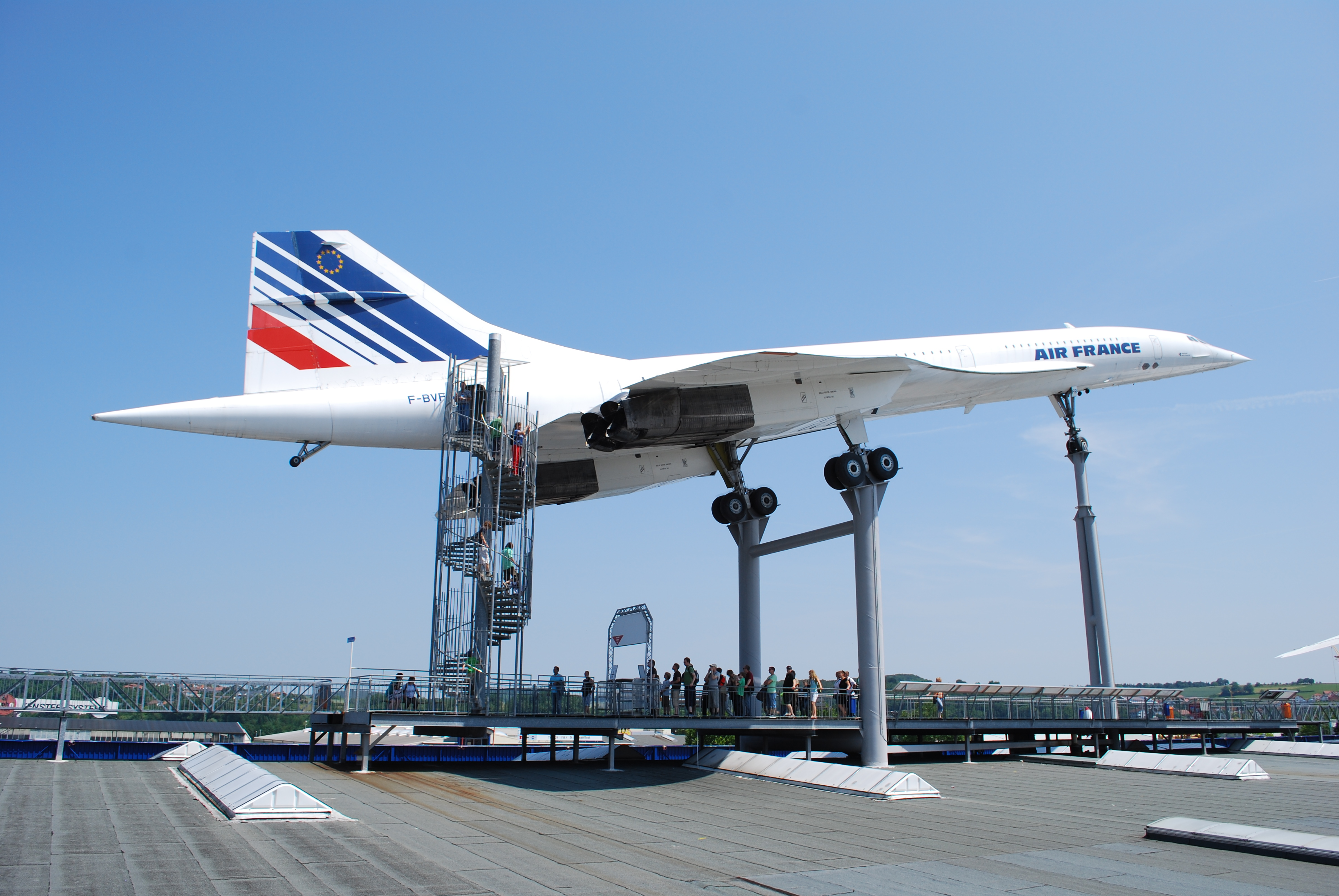 Air France Aerospatial Concorde at the Auto & Technik Museum, Sinsheim 6/11.